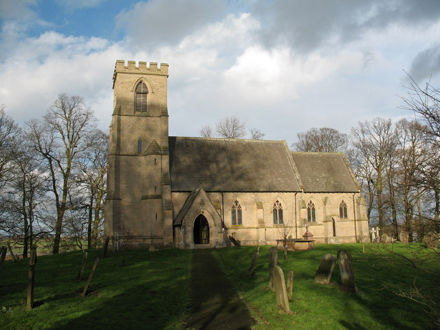 St Mary and All Saints Church Cundall An isolated little country church dating from 1852. There is a rather finely carved Saxon cross shaft within.